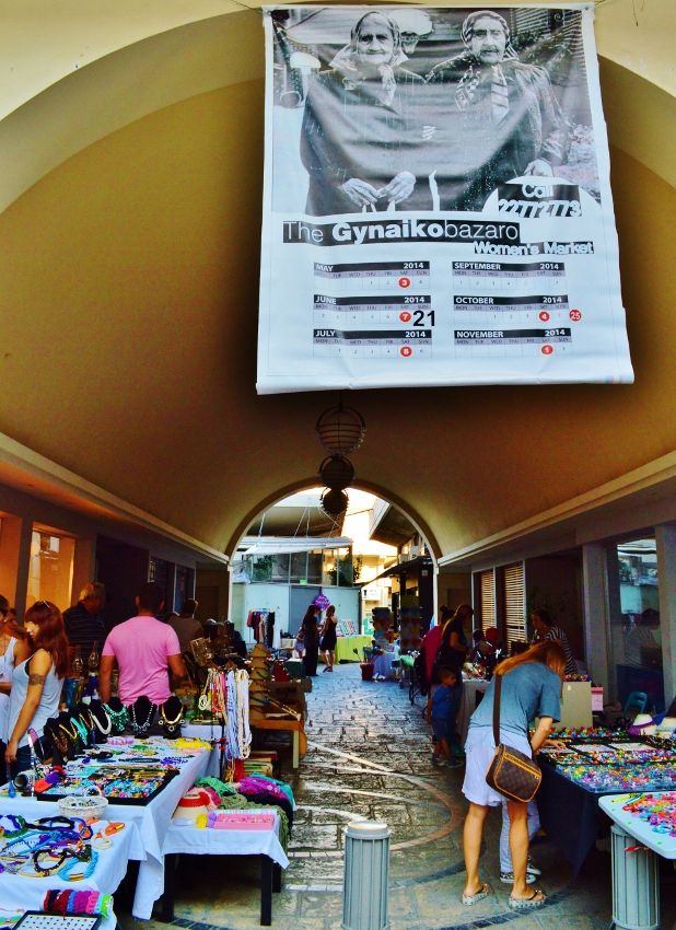 Womens market arcade Ledra Street Nicosia Republic of Cyprus